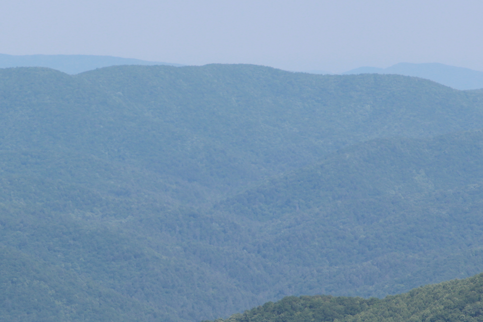 Brasstown Bald view looking towards Young Lick